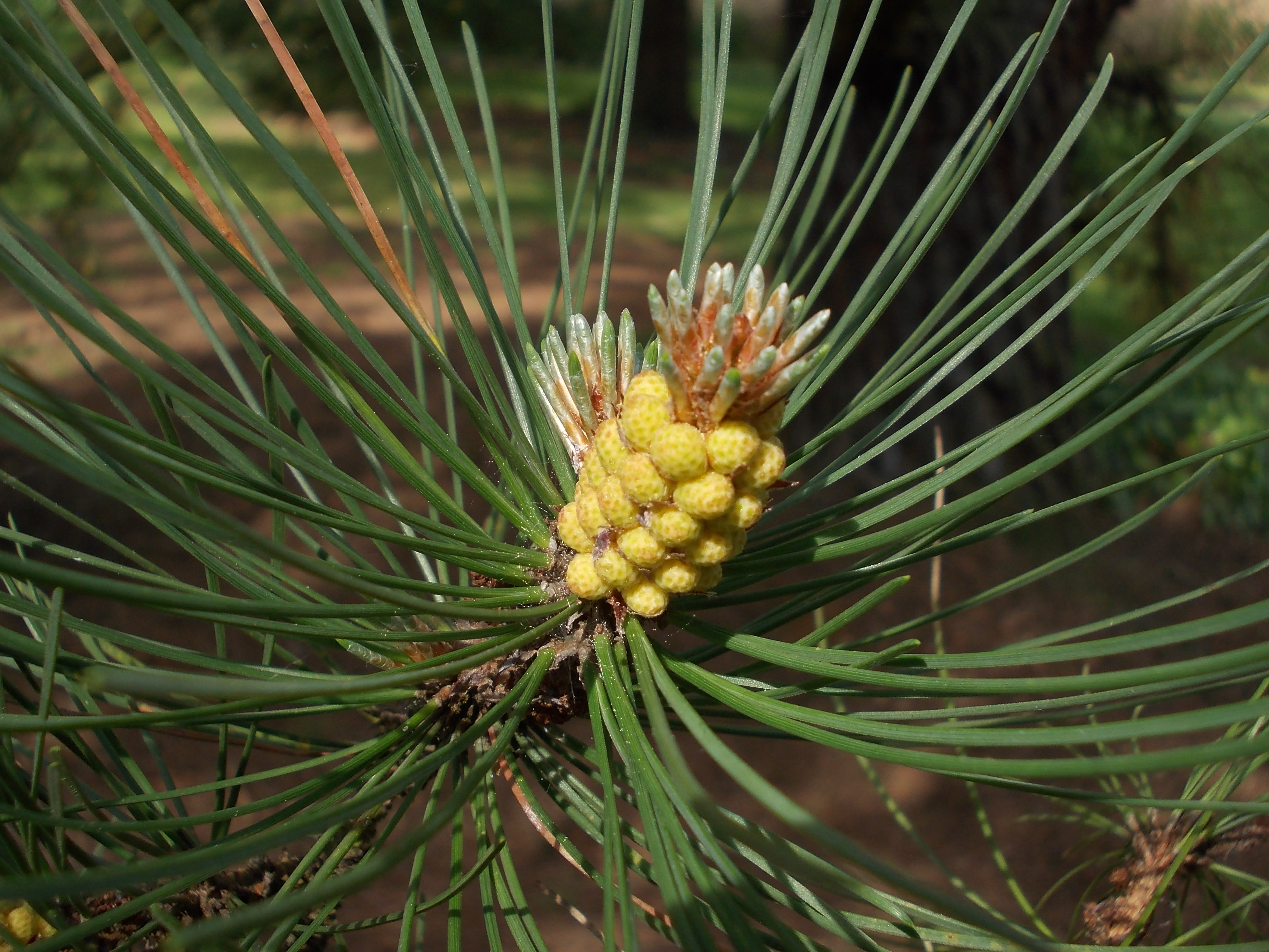 Growing tip of Bishop Pine, Pinus muricata